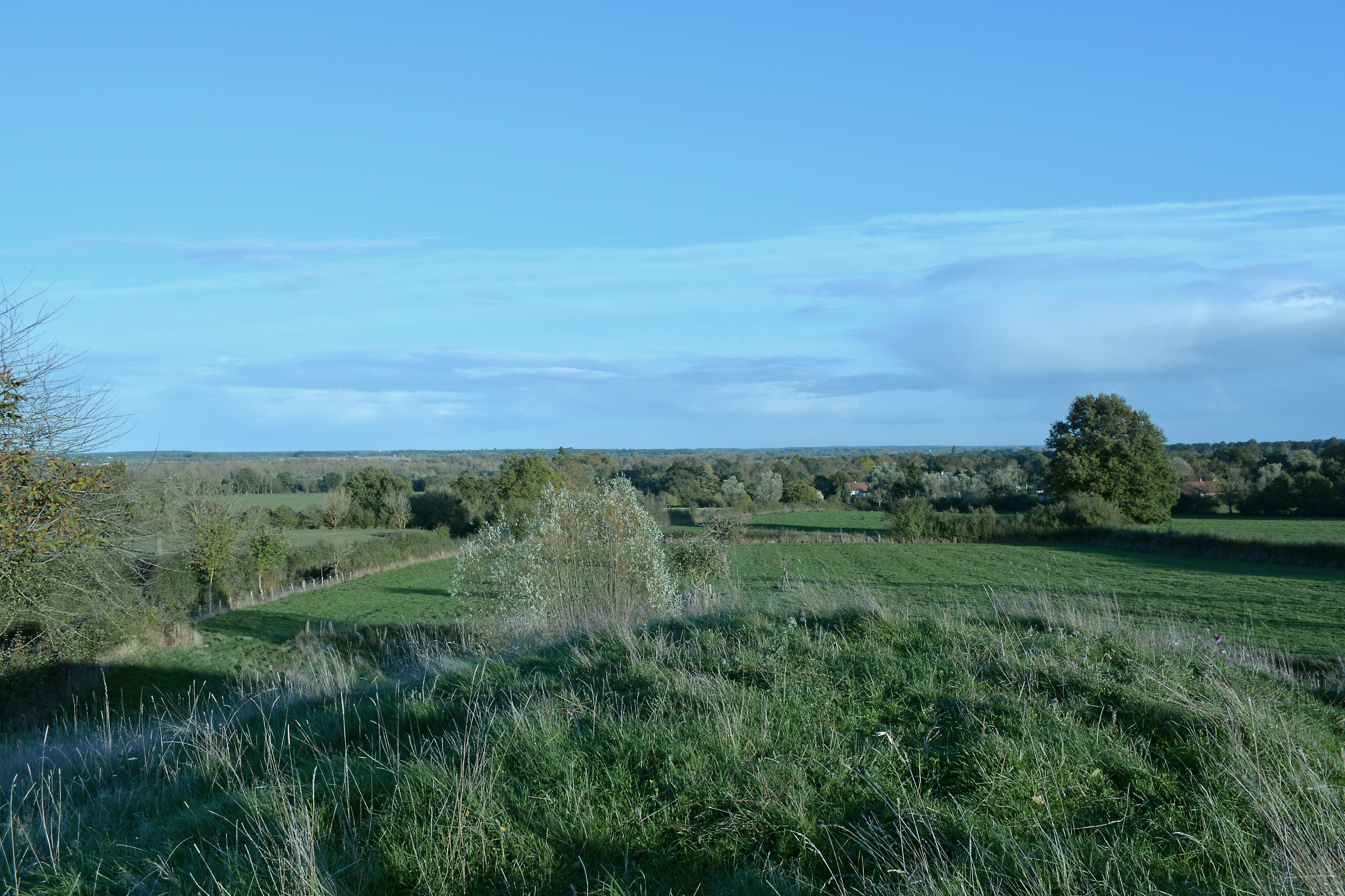 Today disappeared, the fort was situated on this hill in the municipality of Bagneux ( Allier) Bourbonnais.